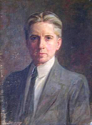 Self-portrait